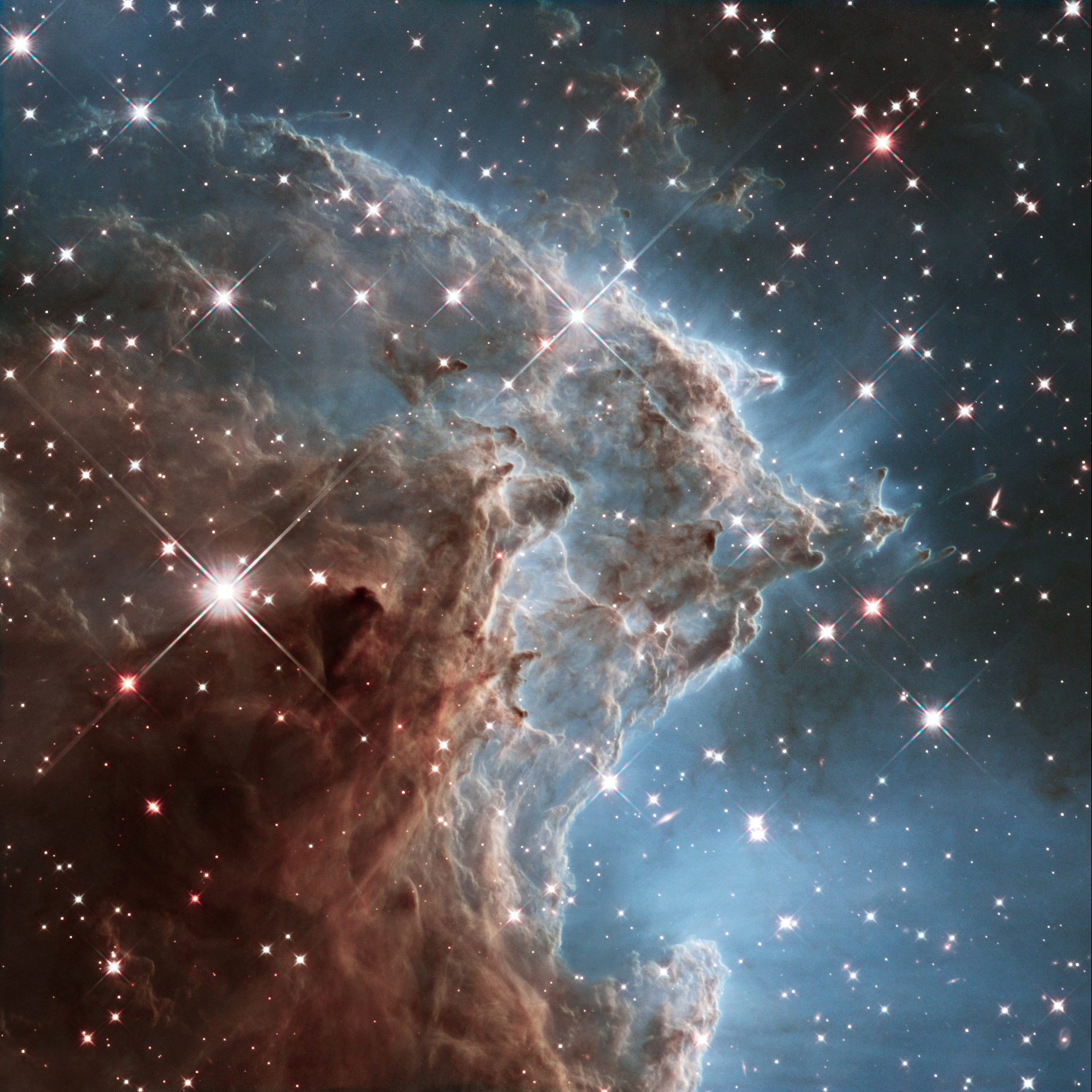 To celebrate its 24th year in orbit, the NASA/ESA Hubble Space Telescope has released this beautiful new image of part of NGC 2174, also known as the Monkey Head Nebula. NGC 2174 lies about 6400 light-years away in the constellation of Orion (The Hunter). Hubble previously viewed this part of the sky back in 2011 — the colourful region is filled with young stars embedded within bright wisps of cosmic gas and dust. This portion of the Monkey Head Nebula was imaged in the infrared using Hubble's Wide Field Camera 3.